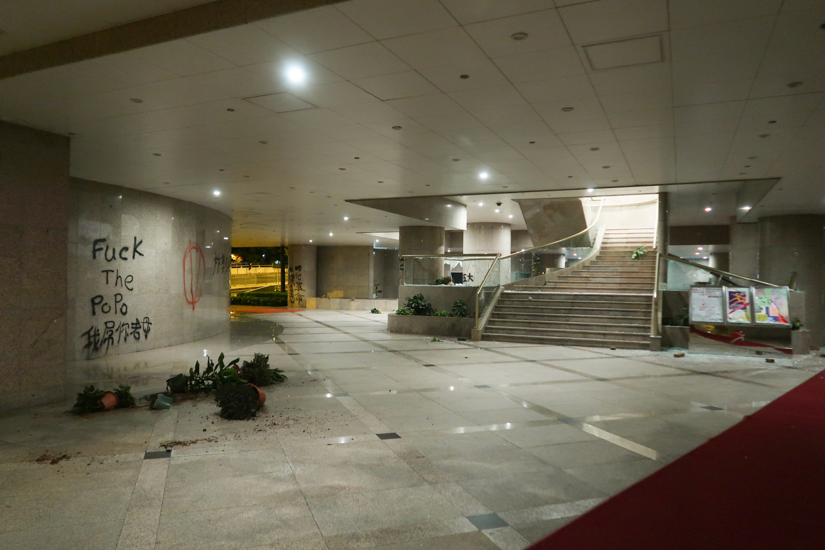 LCSD Headquarters GF lobby damage